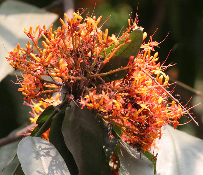 Sita Ashok Saraca asoca in Kolkata, West Bengal, India.